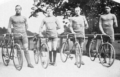 The Swedish cycling team at the 1912 Summer Olympics